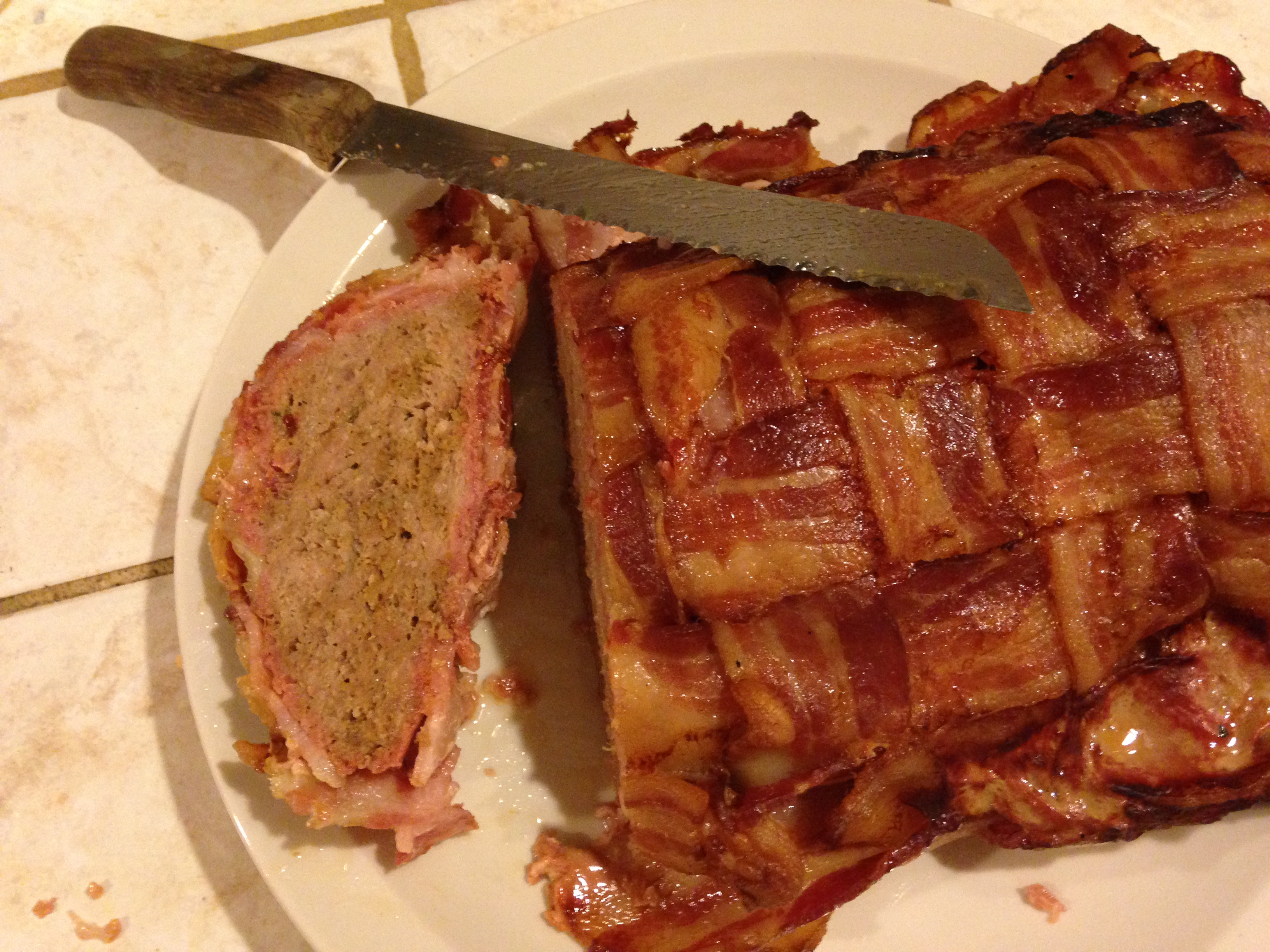 Bacon Explosion fully cooked, placed on a platter with first slice